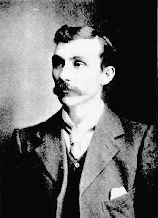 Photographic portrait of William Dartnell Johnson, a politician in the Australian state of Western Australia.